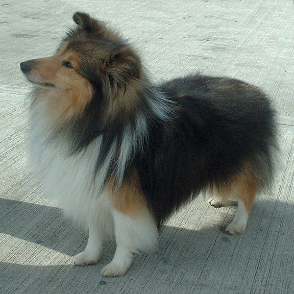 Shetland Sheepdog - Pacarane Political Party owned by Mrs Laversuch.